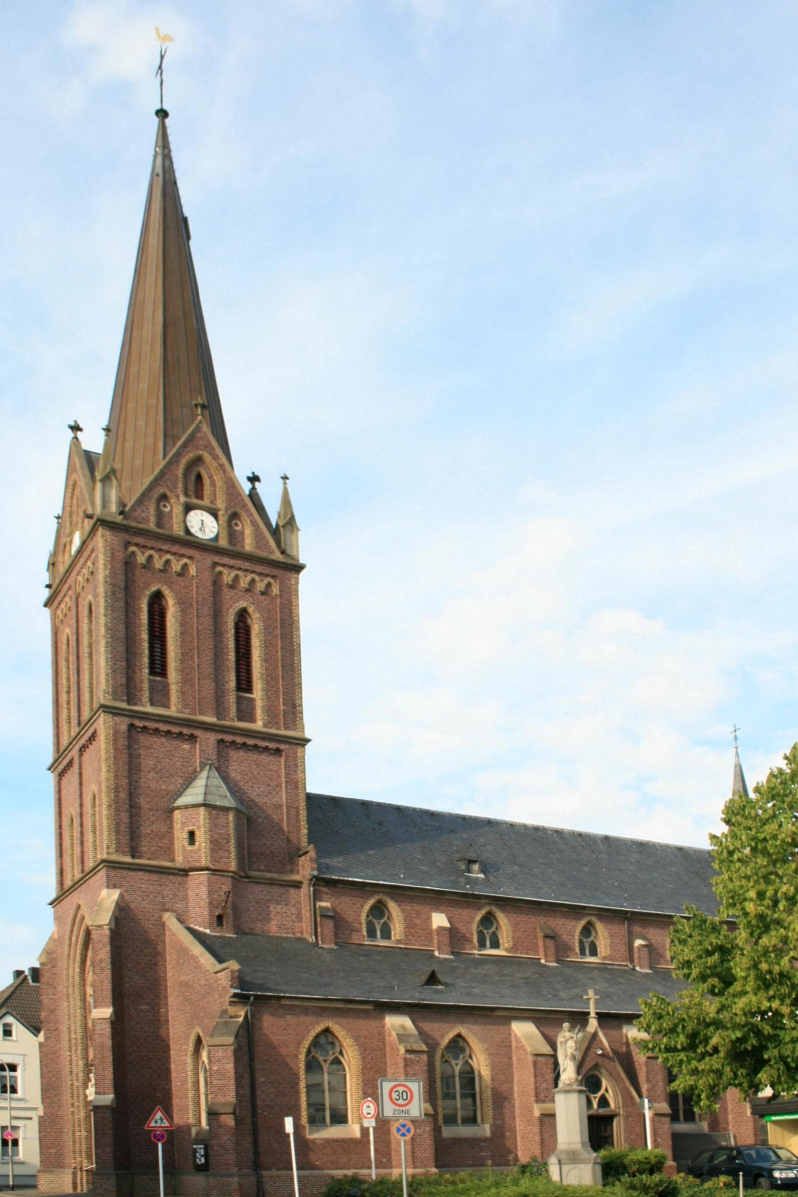 Cultural heritage monument No. N 010 in Mönchengladbach